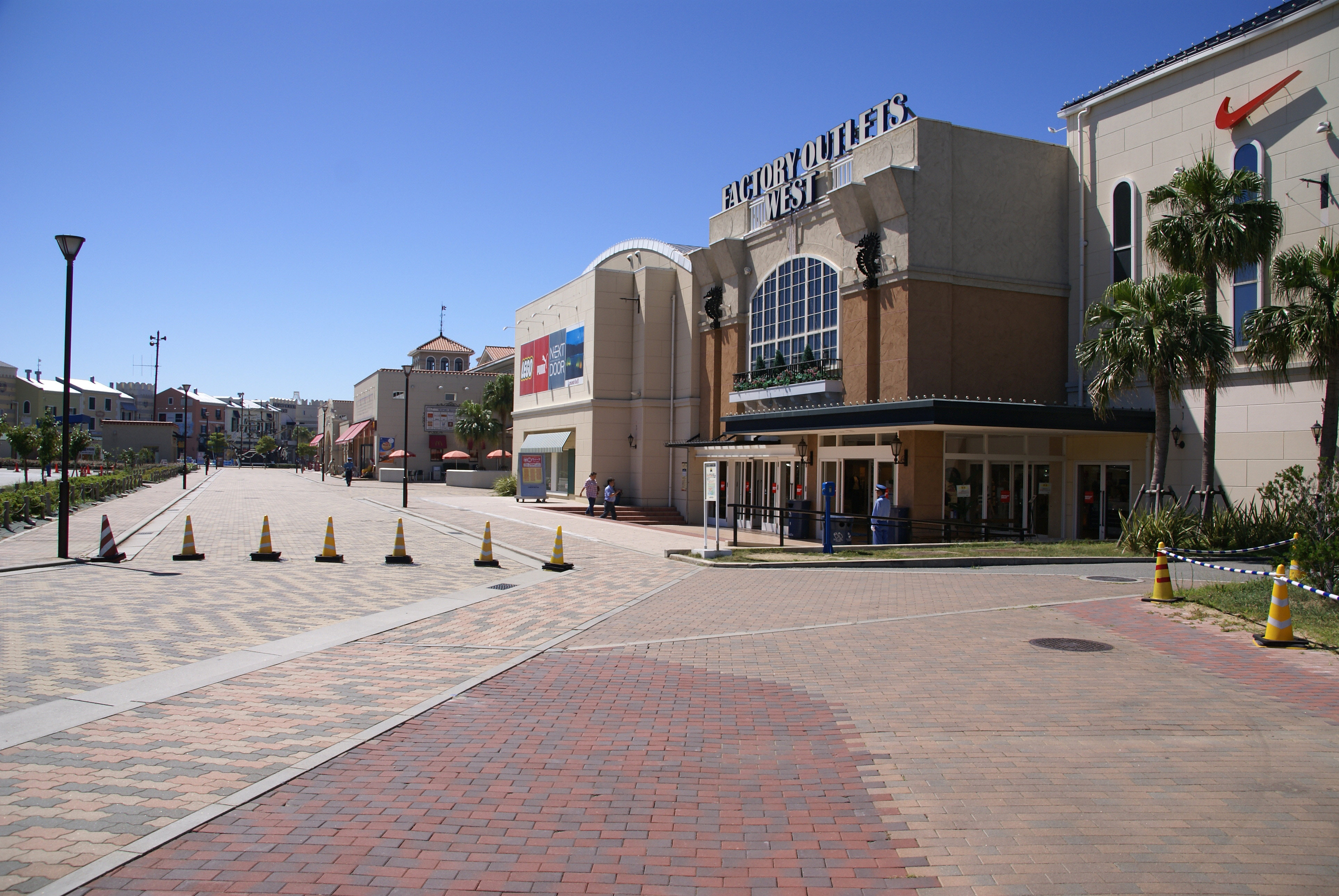 Marine pia Kobe in Kobe, Hyogo prefecture, Japan